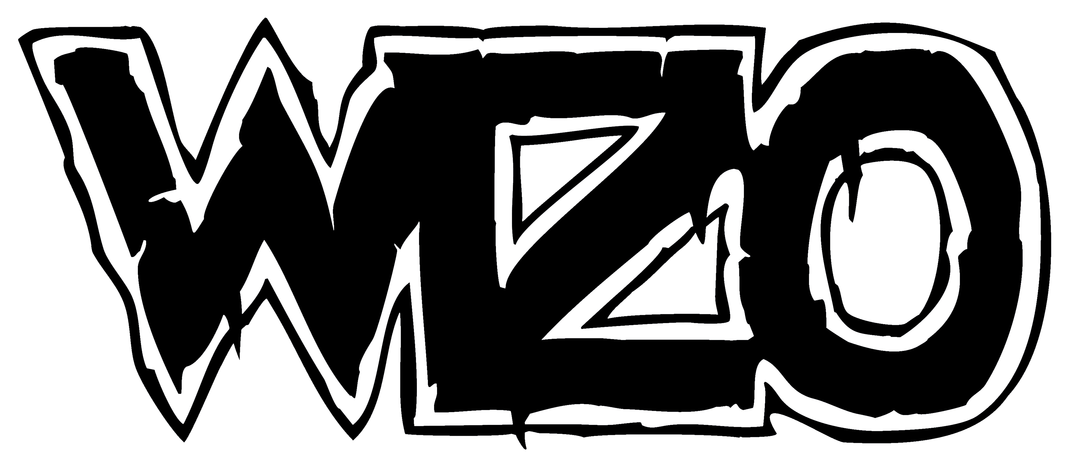 Logo of the German punk rock band "WIZO".